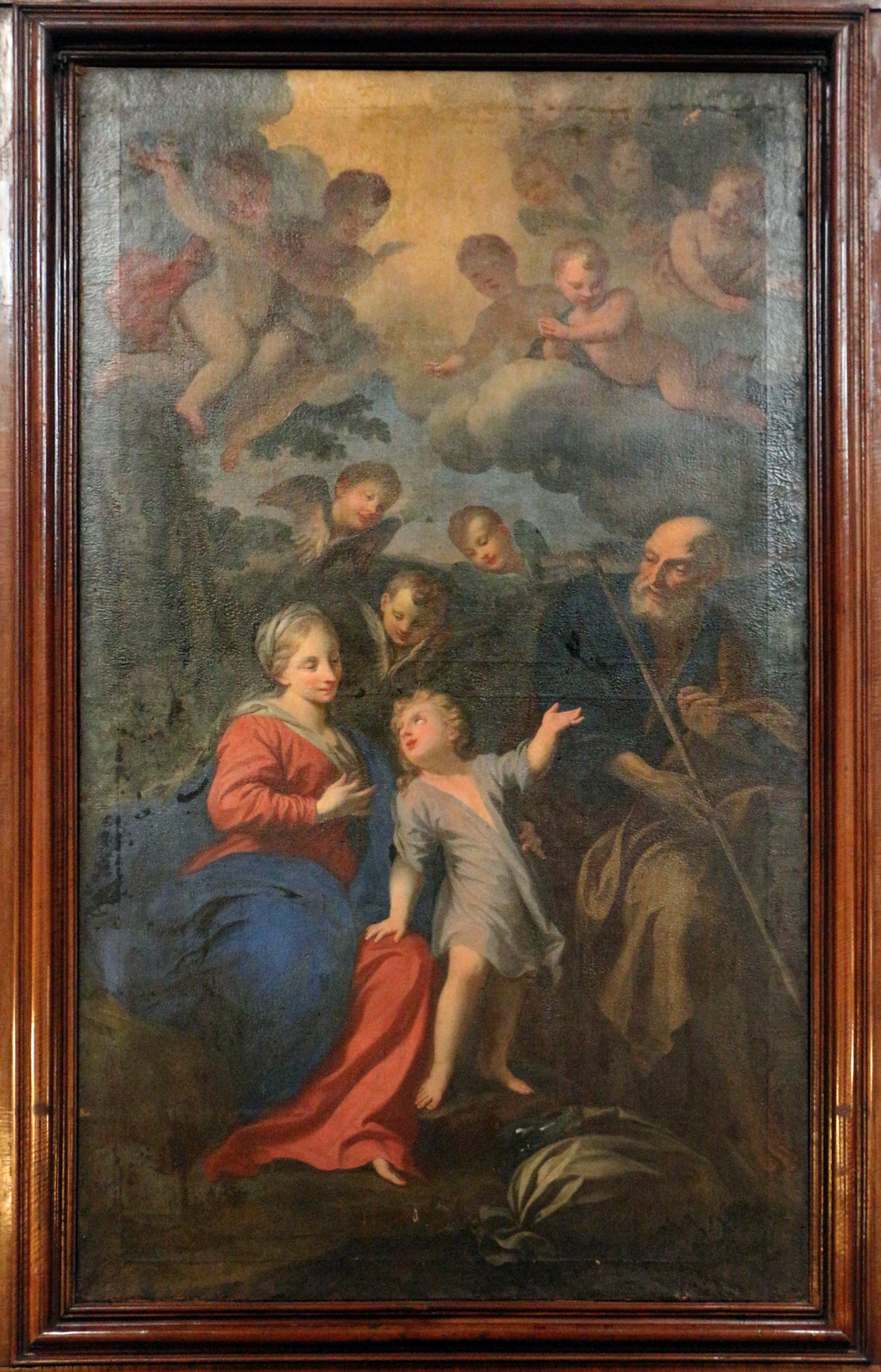 Cappuccine (Florence)